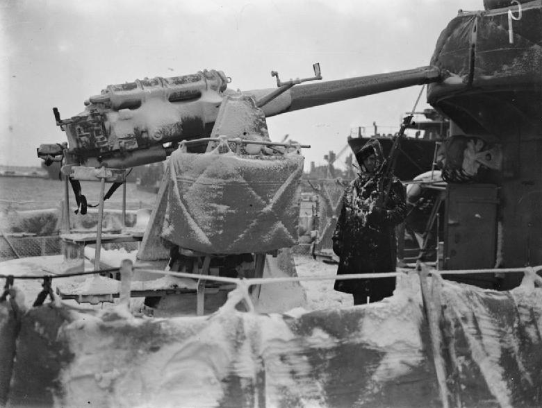 The destroyer, HMS ESKIMO, presented an all white appearance after a severe snowstorm. A sentry stands next to a snow covered 4 inch Mark V gun on Mark III HA mounting on deck." The factual accuracy of this description or the file name is disputed.Reason: This cannot be HMS Eskimo, for 4 inch guns on Tribal Class were twin Mk XVI, not single Mk V. In addition, this gun looks too small for 4 inch - maybe 3 inch gun.